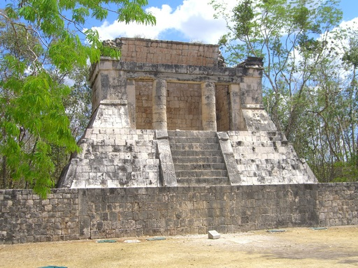 Temple of the Bearded Men (south extremity of the Great Ball Court) at Chich'en Itza, Yucatán